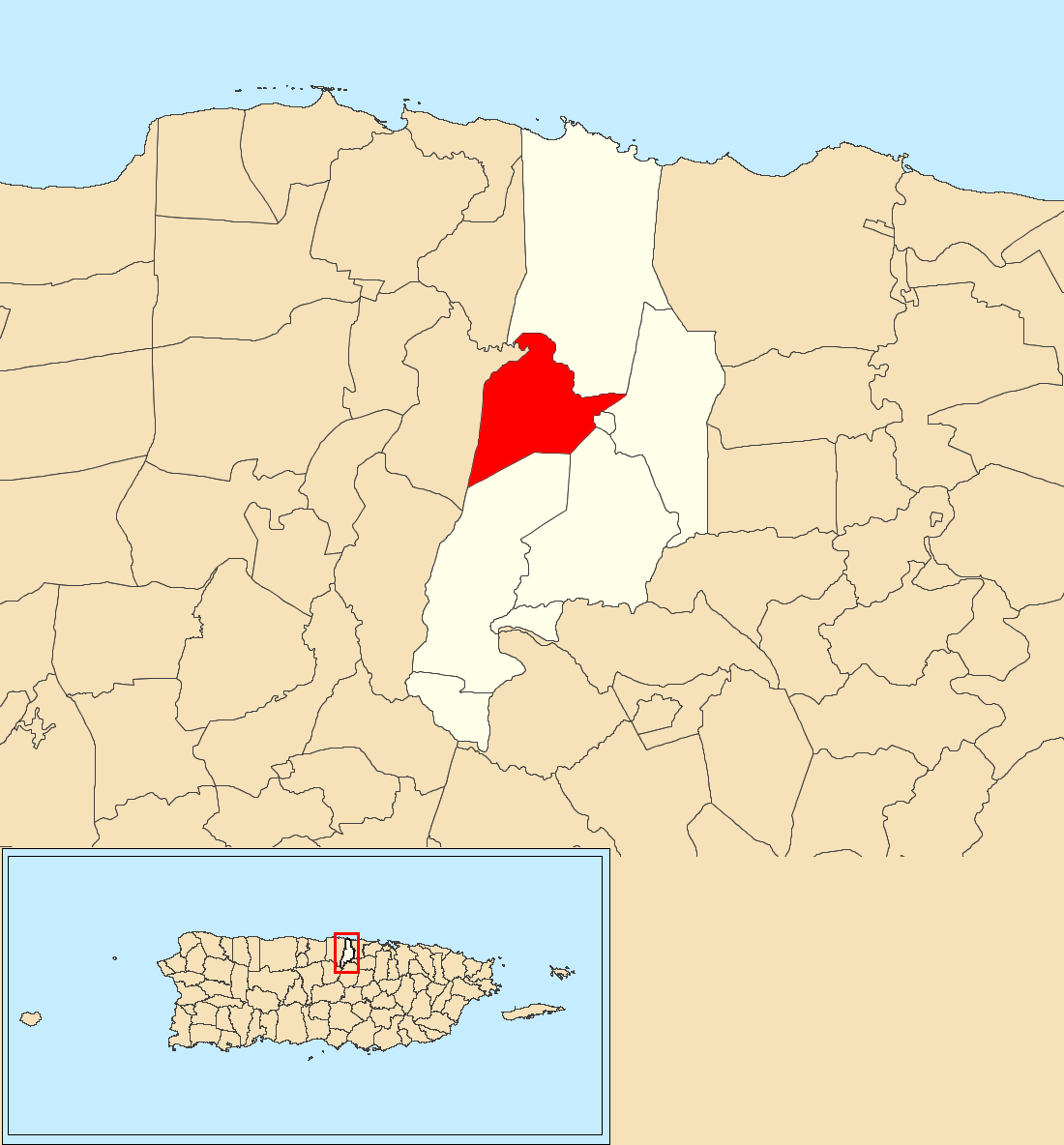 Bajura, Vega Alta, Puerto Rico locator map